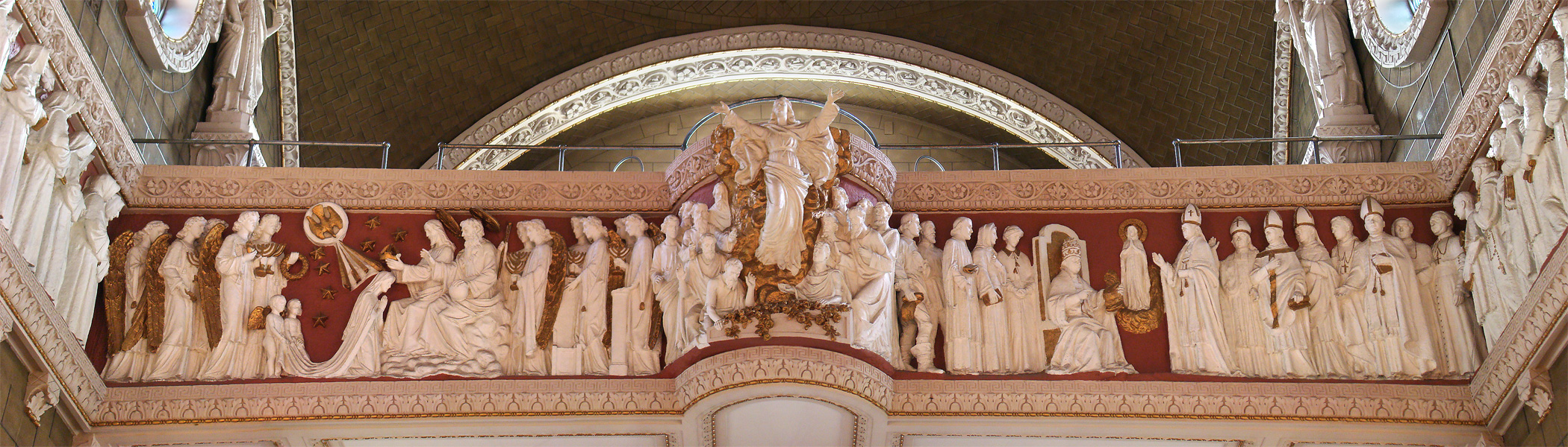 Church of Nativité-de-la-Sainte-Vierge-d’Hochelaga, Montreal, Quebec, Canada. The monumental frieze over the main entrance on the west side.